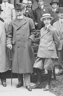 Eduardo Suárez Mujica and son in 1914 at Niagara Falls Cropped from 150px